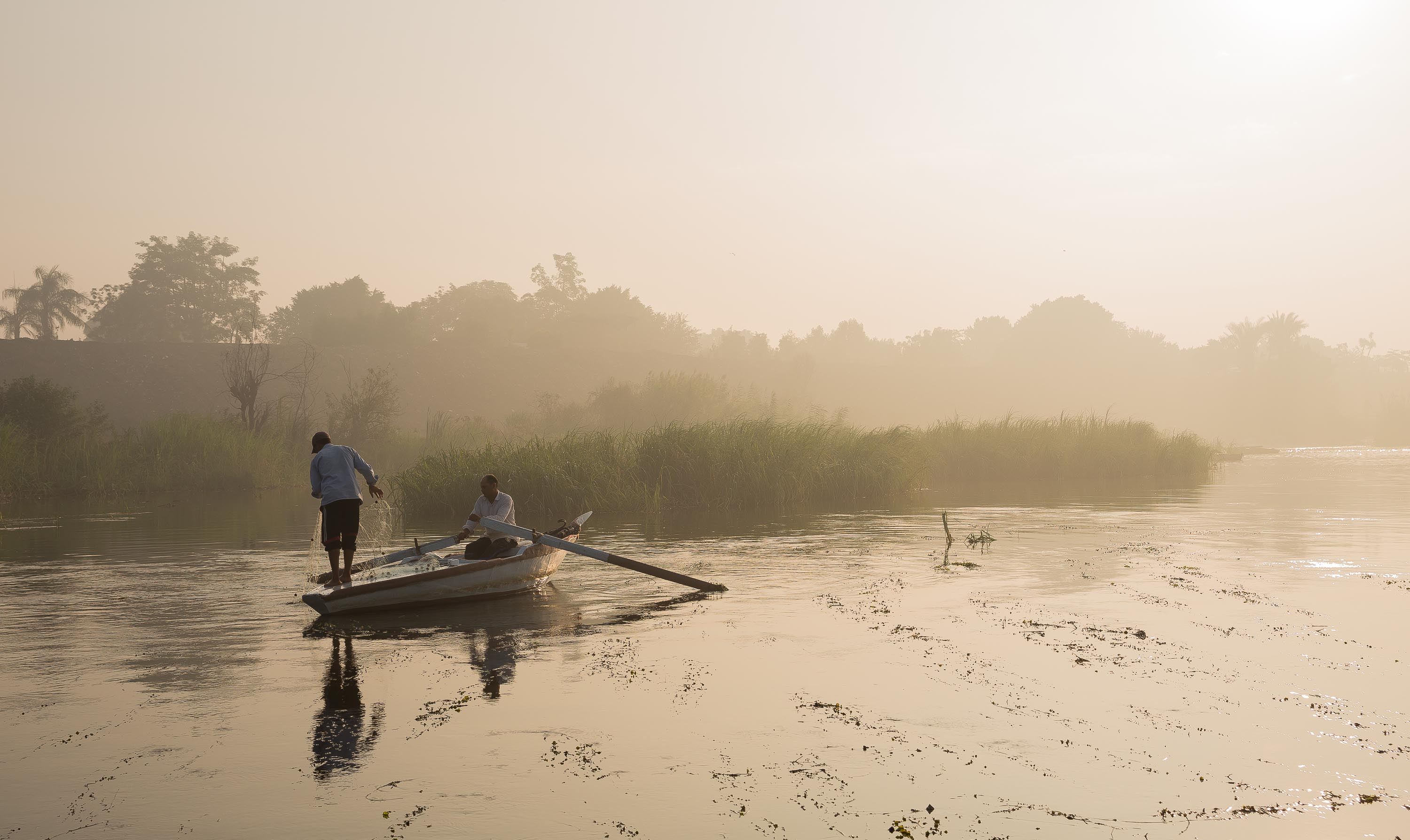 Fishermen at their environment in the early hours of morning. This is an image of "African people at work" from Egypt